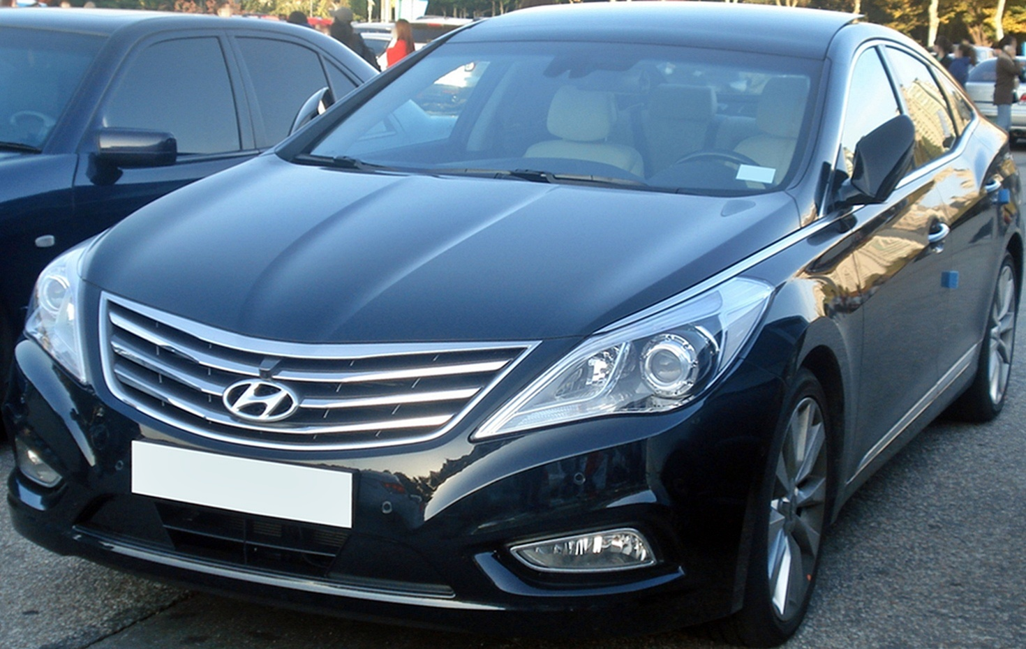 Hyundai 5G Grandeur